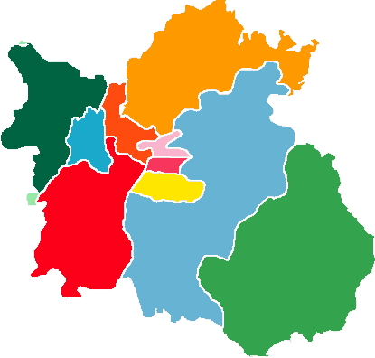 Subdivision of Nanchang